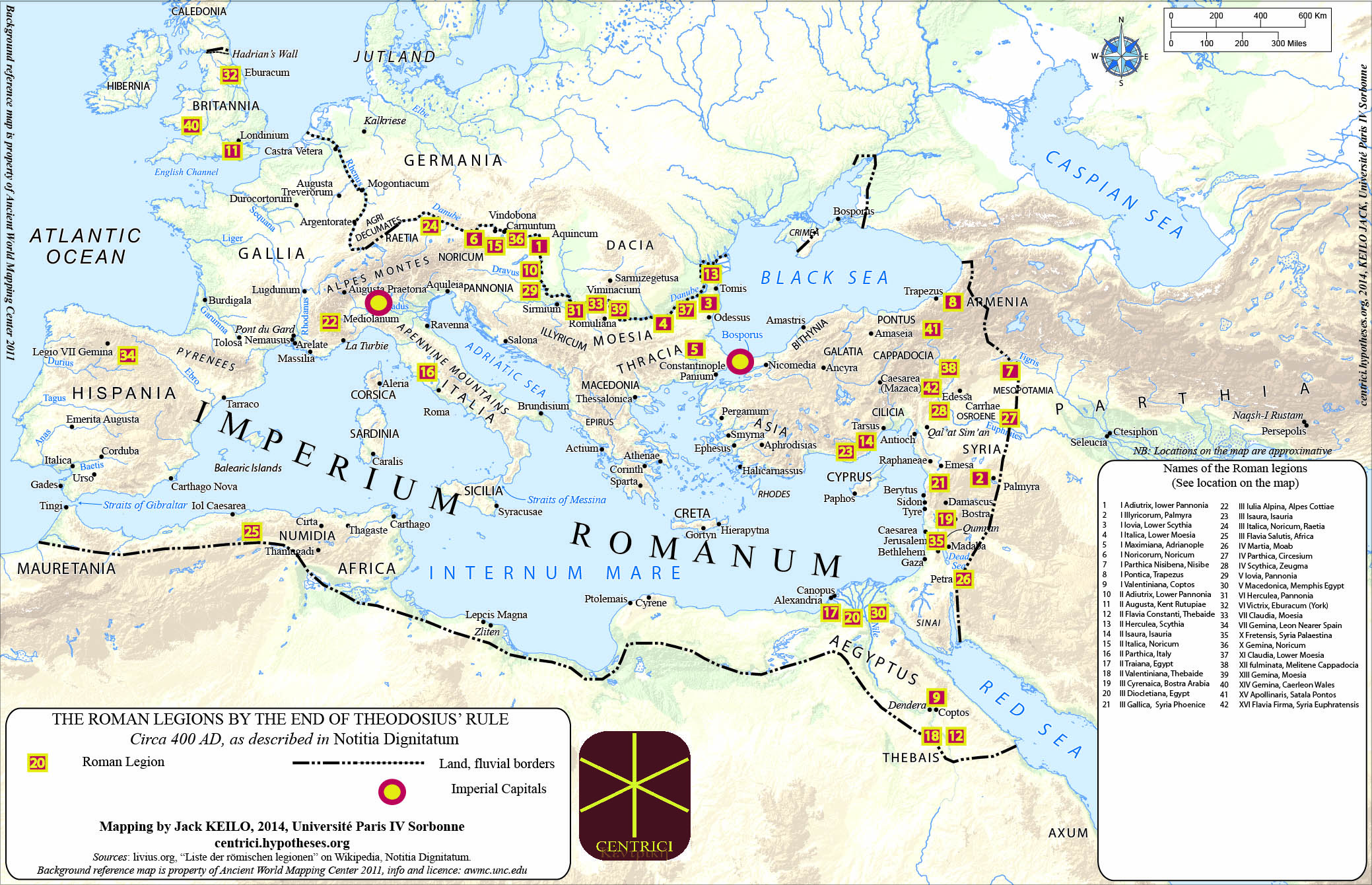 Map of Roman legions by 400 AD.